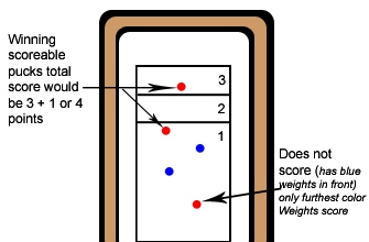 Shuffleboard Scoring Any puck past the foul line will score one point